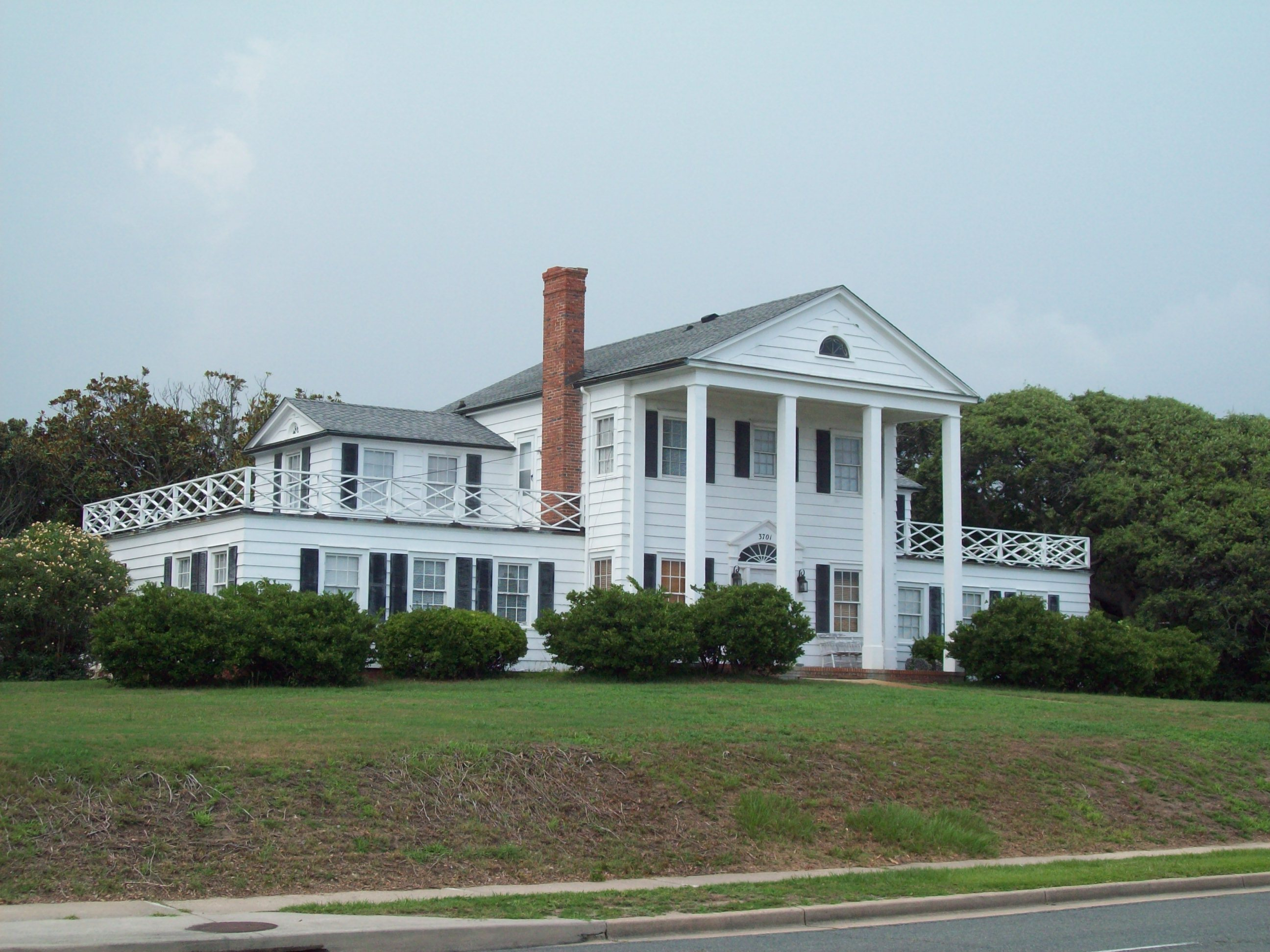 Historic residence at 3701 N. Ocean Blvd. — in the Myrtle Heights-Oak Park Historic District in South Carolina. June 2010